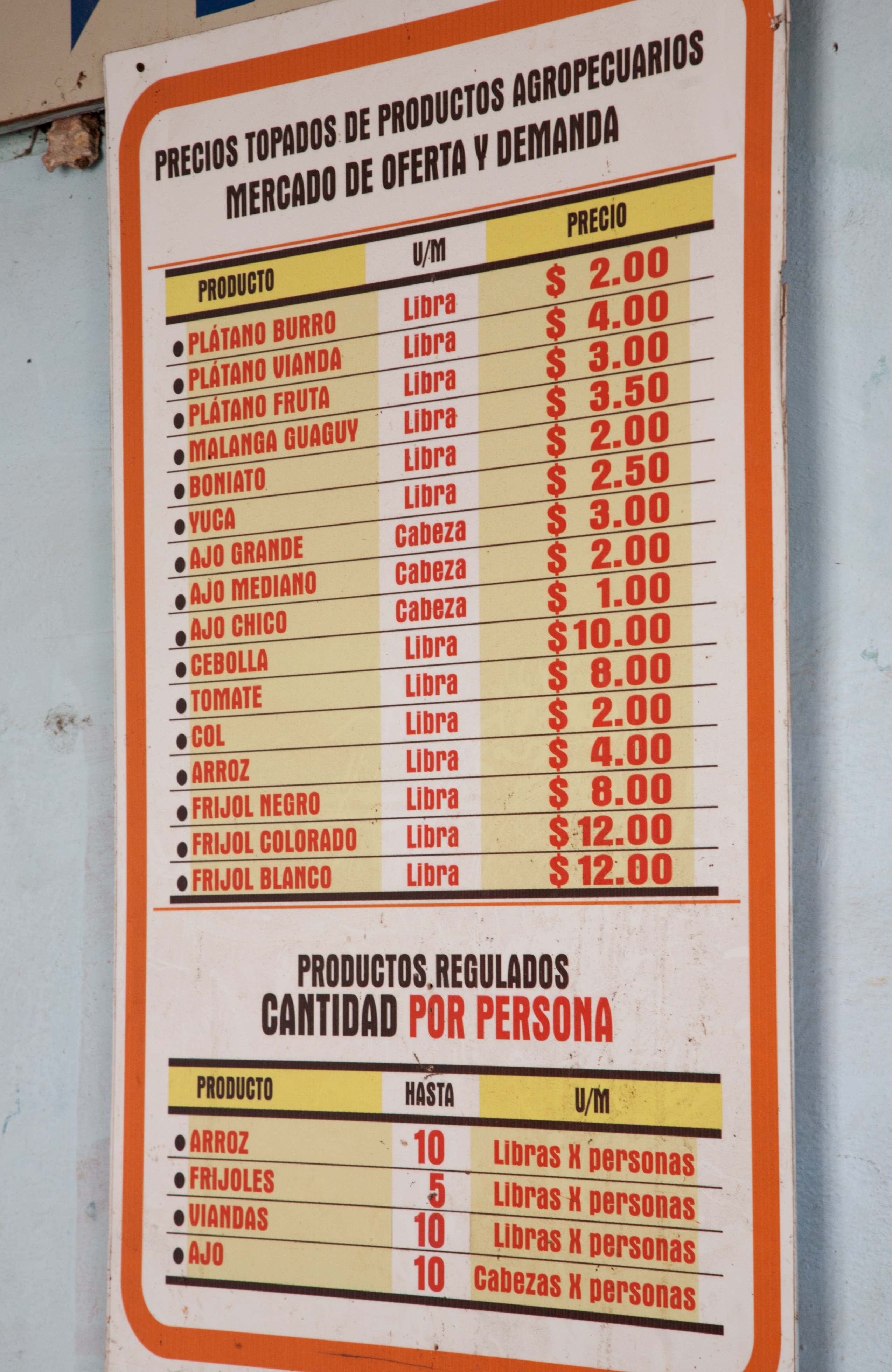 Cuba has two parallel currencies: National Pesos and Convertibles to Dollars (CUCs). National pesos only buy goods in bulk , limited with a "Libreta" to a fixed quantity each month. This chart shows availabilities and limited products in a grocery market depending on the week day. Havana (La Habana), Cuba